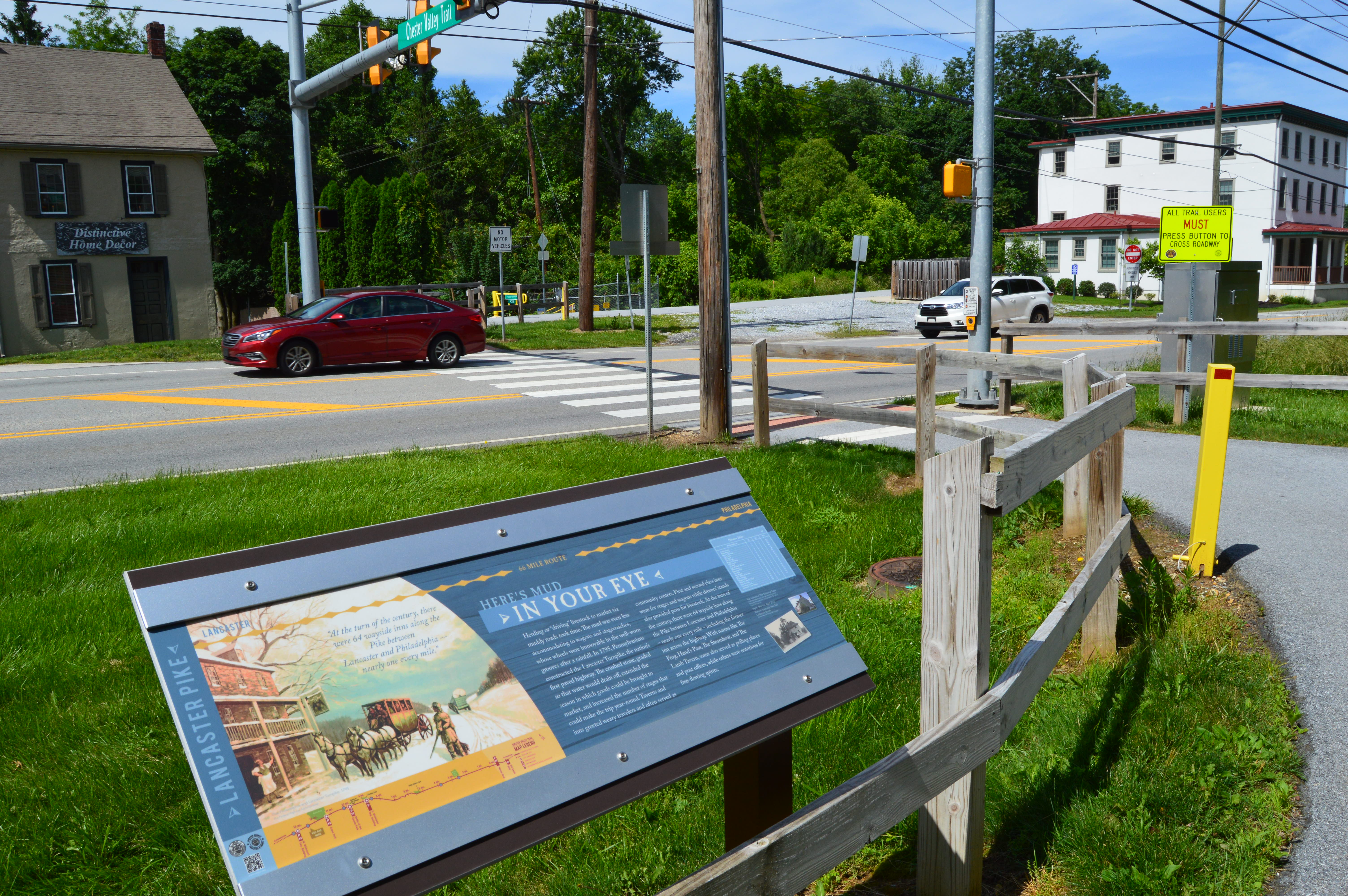 Chester Valley Trail Route 30 crossing in Exton